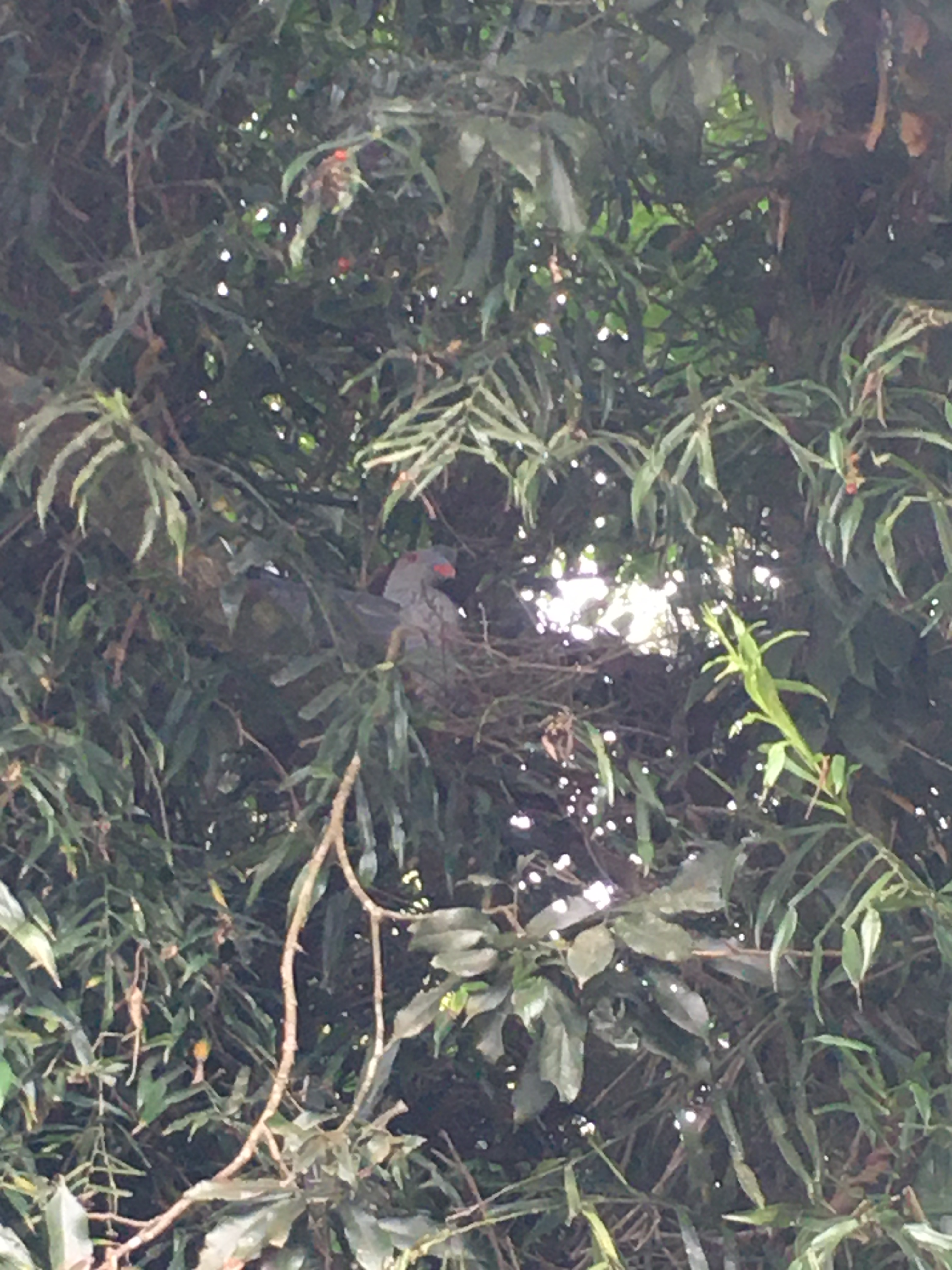 Topknot Pigeon Lopholaimus antarcticus nesting, Maleny, Queensland.